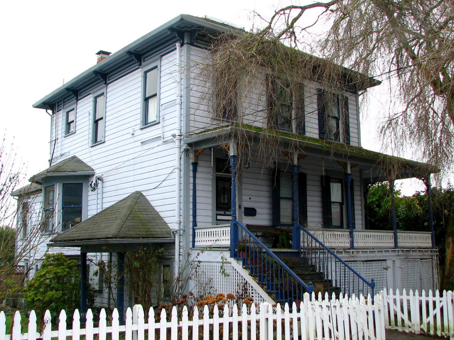 The historic Cox-Williams House (built 1890), located at 280 South 1st Street in St. Helens, Oregon, United States, is listed on the US National Register of Historic Places (NRHP). It also lies within the NRHP-listed St. Helens Downtown Historic District.